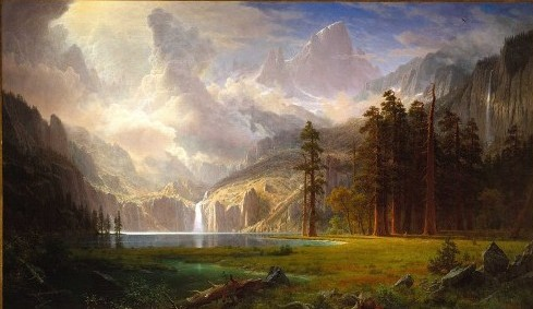 Albert Biertstadt (d. 1902) Mt. Whitney (circa 1877)